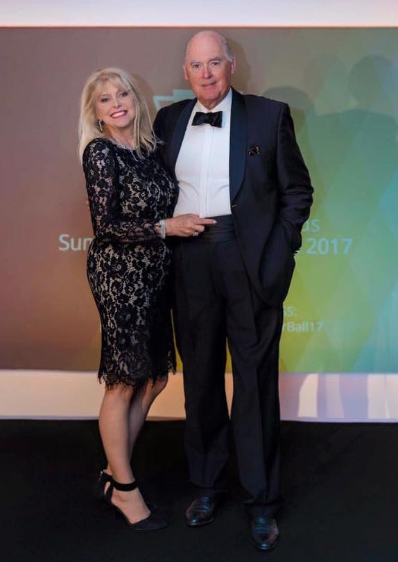 Everist and wife, Susan Emma Mills. July 2017.